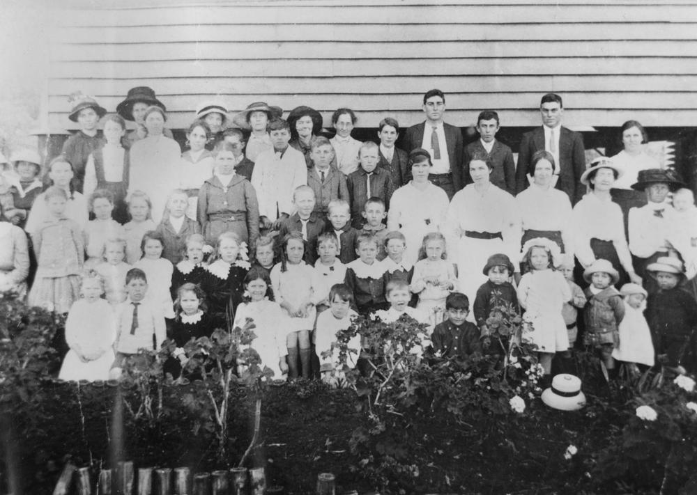 Pupils and families from the Mt Debateable State School, 1914. Taken on the occasion of their school picnic in 1914.